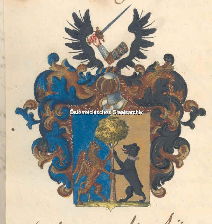 URL